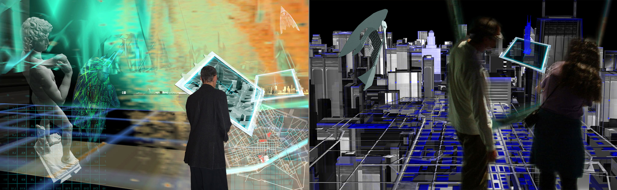 City Cluster.2003. Official Opening & high speed real time exhibit between Chicago and Florence across two Virtual Reality Networking platforms- the CAVE™ Display-EVL- UIC, USA; and the AGAVE Display System - Palazzo Vecchio, Florence